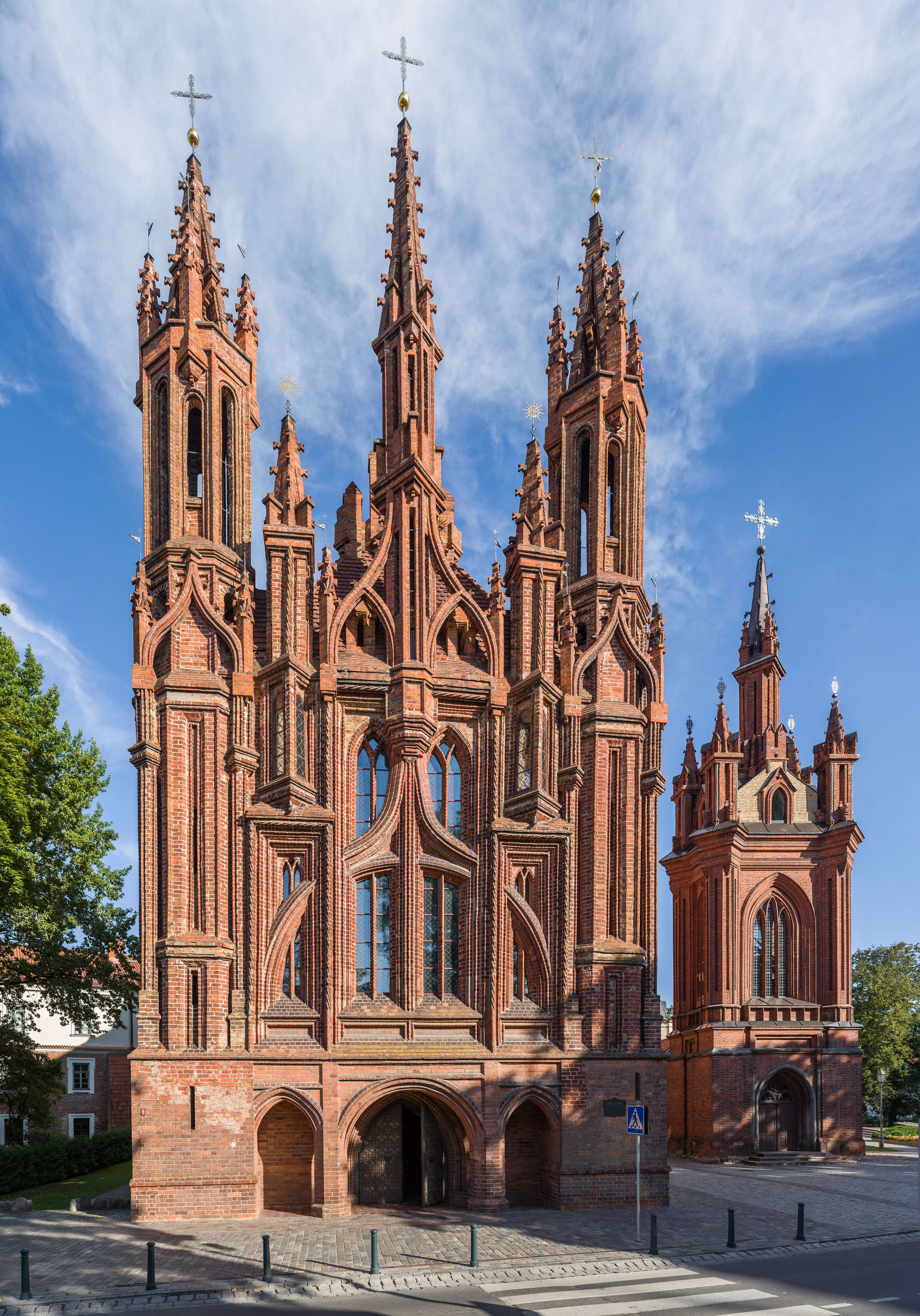 The exterior of St Anne's Church in Vilnius, Lithuania.